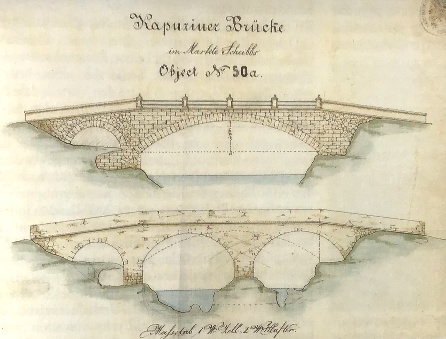 Römerbrücke Umbau